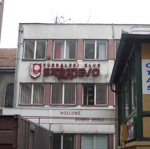 Sarajevo Football Club (FK Sarajevo) head office in downtown Sarajevo.